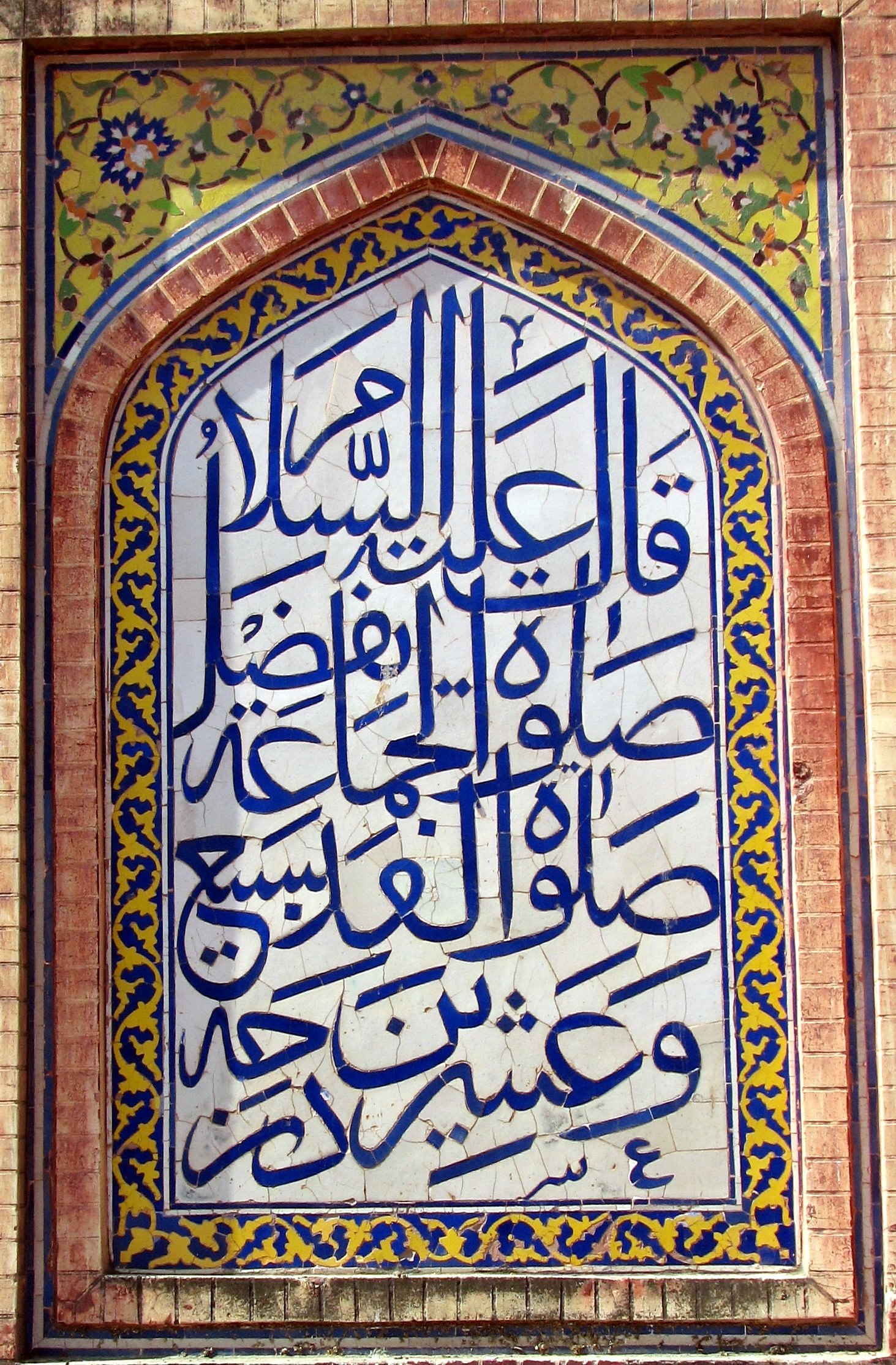 The Wazir Khan Mosque in Lahore, Pakistan, is famous for its extensive faience tile work. It was built in seven years, starting around 1634-1635 A.D., during the reign of the Mughal Emperor Shah Jehan. It was built by Shaikh Ilam-ud-din Ansari, a native of Chiniot, who rose to be the court physician to Shah Jahan and later, the Governor of Lahore. He was commonly known as Wazir Khan. (The word wazir means 'minister' in Urdu language.) The mosque is located inside the Inner City and is easiest accessed from Delhi Gate. (